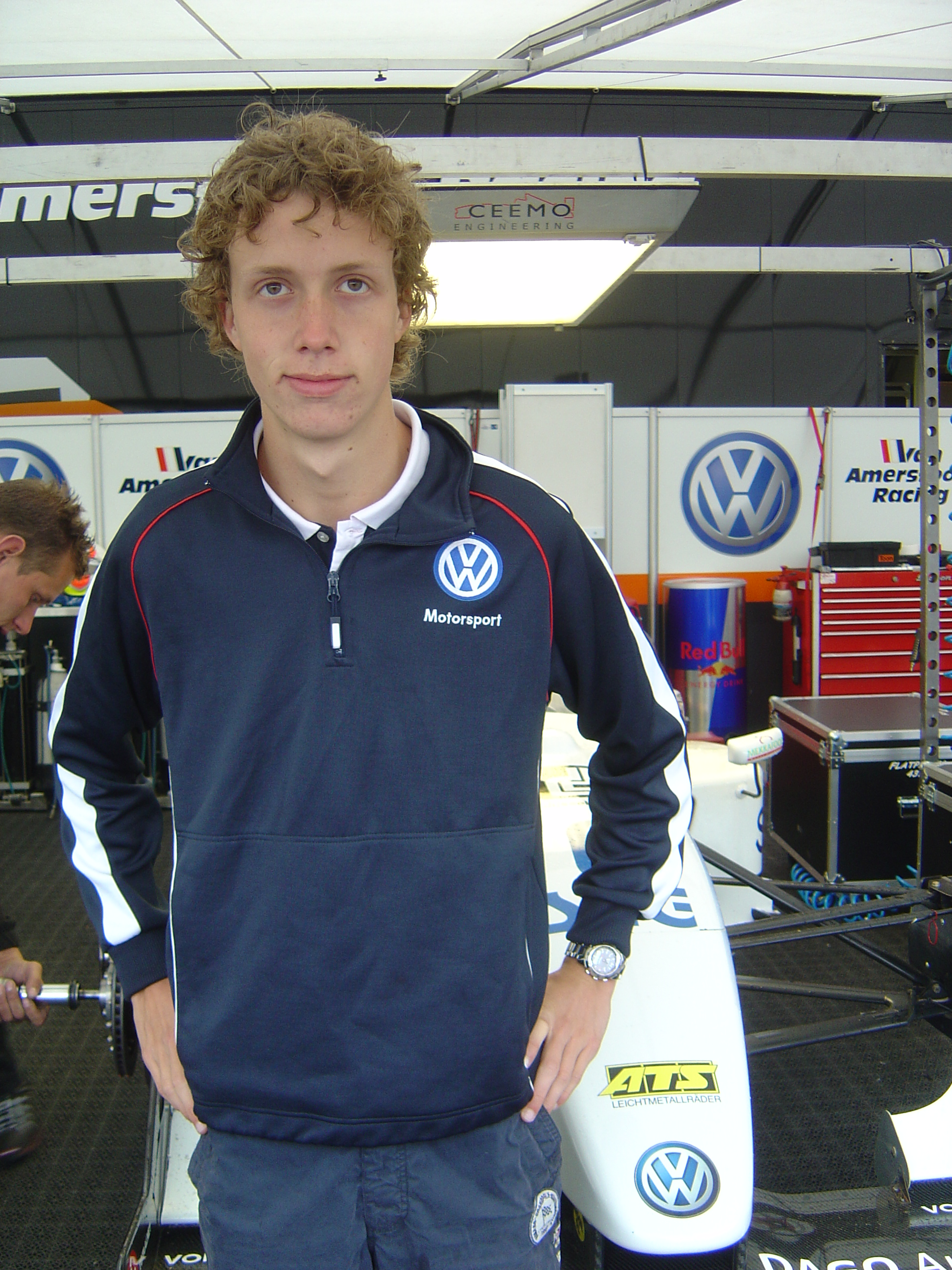 Stef Dusseldorp: the photo was taken during 2009's ADAC GT Masters race weekend at Hockenheim